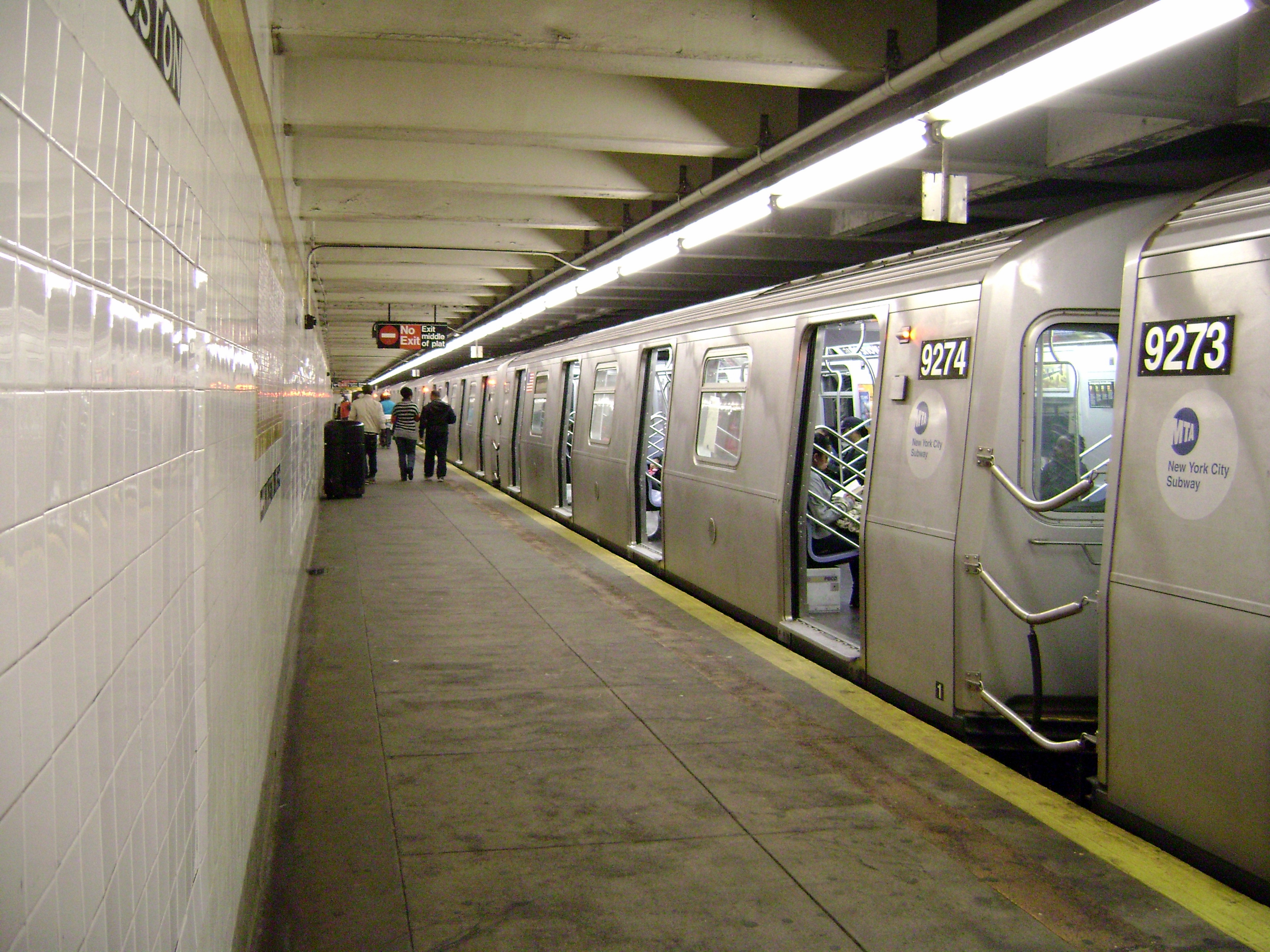 A set of R160B subway cars at Kingston-Throop Avenues.